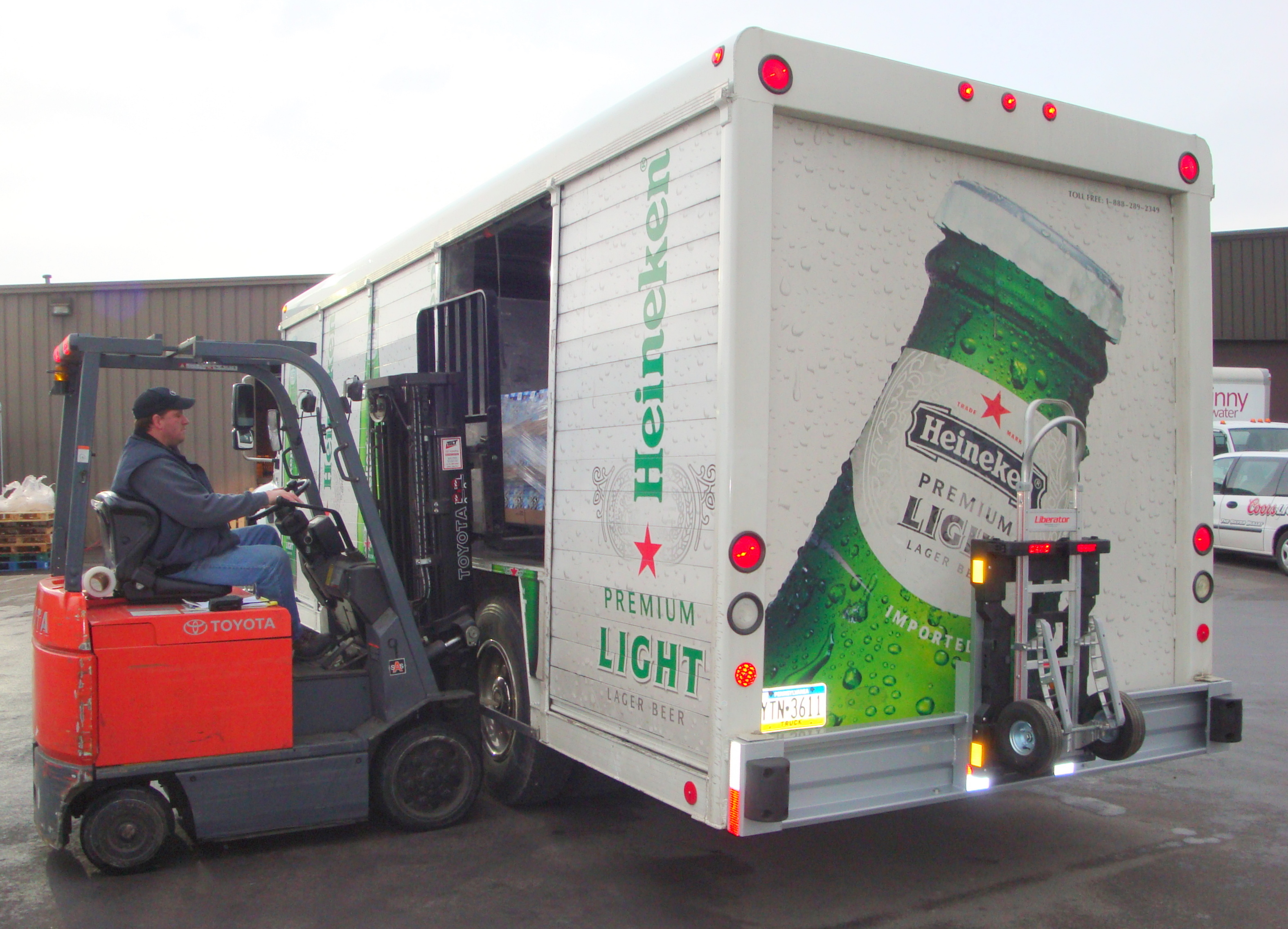 LT Verrastro MillerCoors beverage distributor of Scranton Pennsylvania loading beer products aboard Navistar 4300 series Hessco Heineken Light beverage truck.